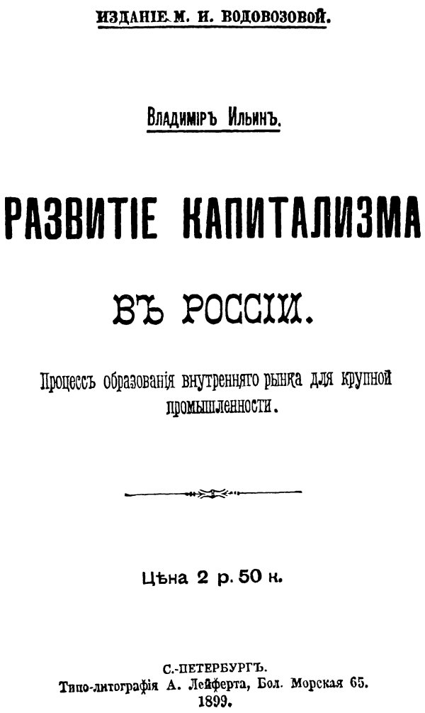 Book cover of Lenin's «The Development of Capitalism in Russia»